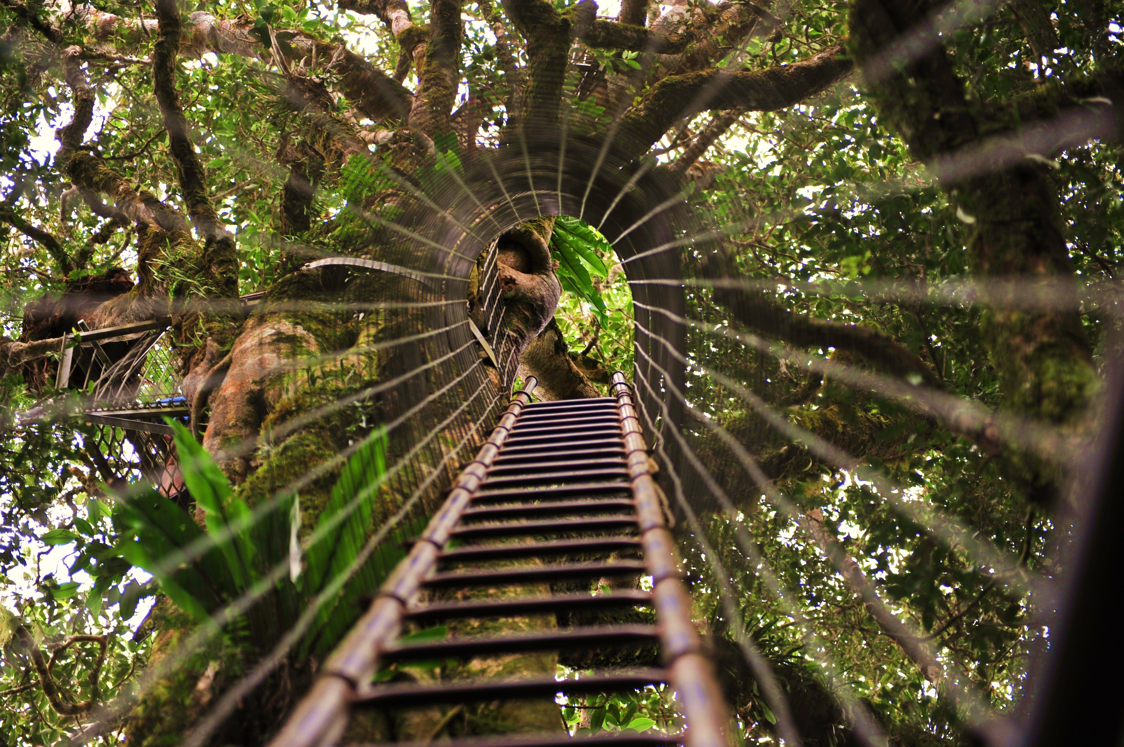 The treetops walk at Lamington National Park, Queensland, Australia.